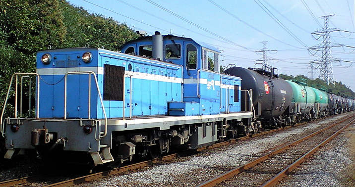 Diesel locomotive type KD60(No.3) of Keiyo Rinkai railway.